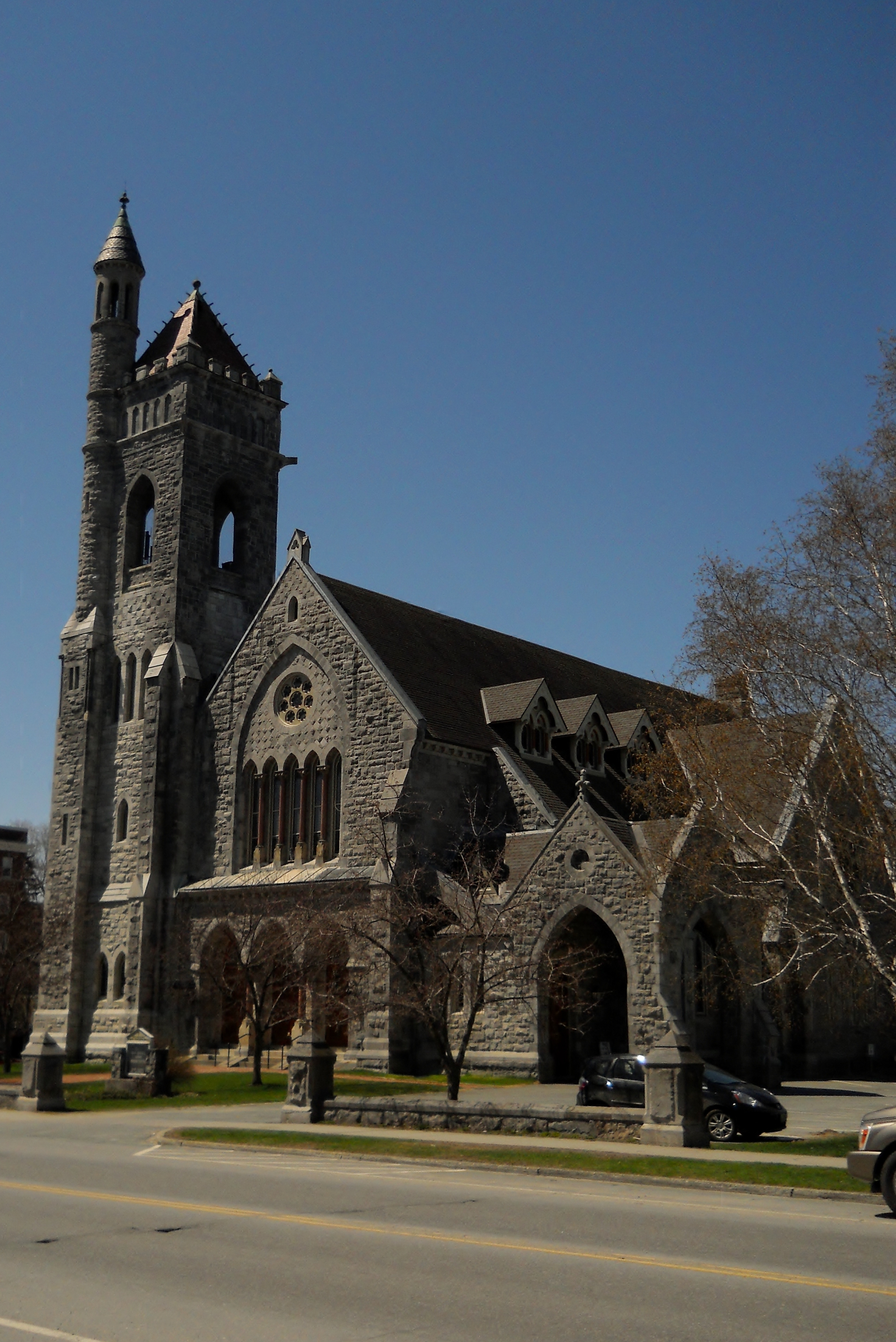 The St. Johnsbury North Congregational Church on Main Street in St. Johnsbury, Vermont